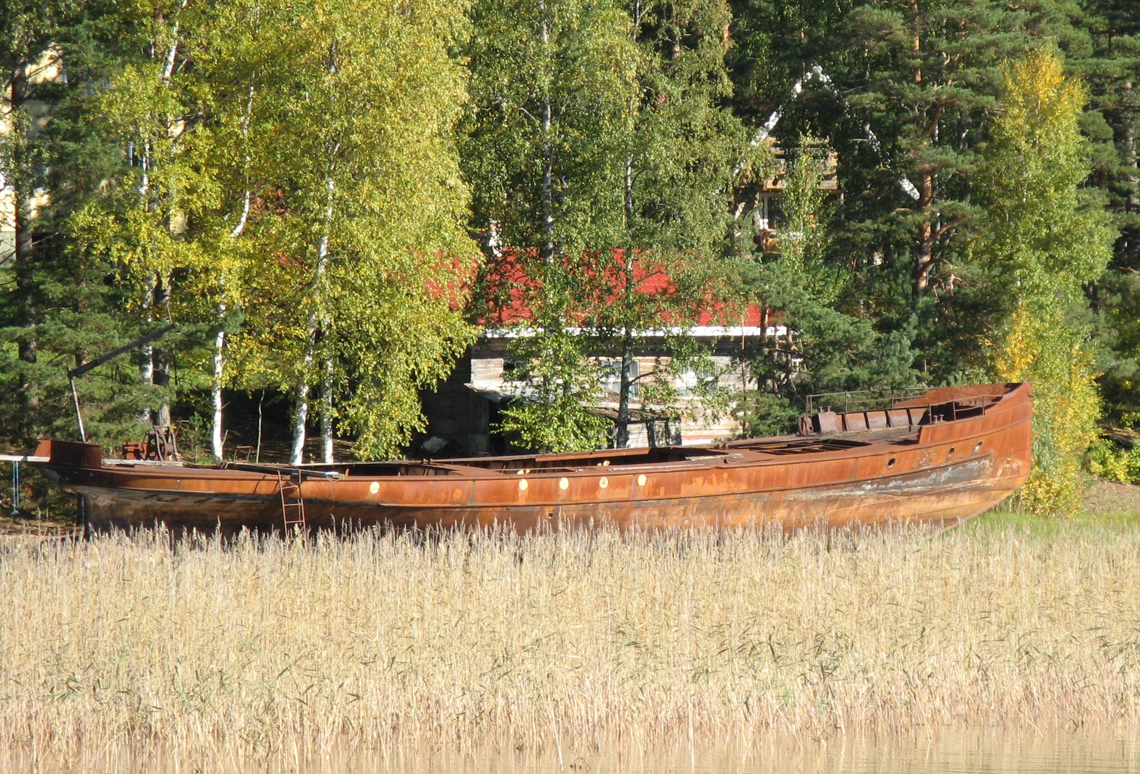 Wreck of the SS Kuru in Visuvesi, Ruovesi, Finland